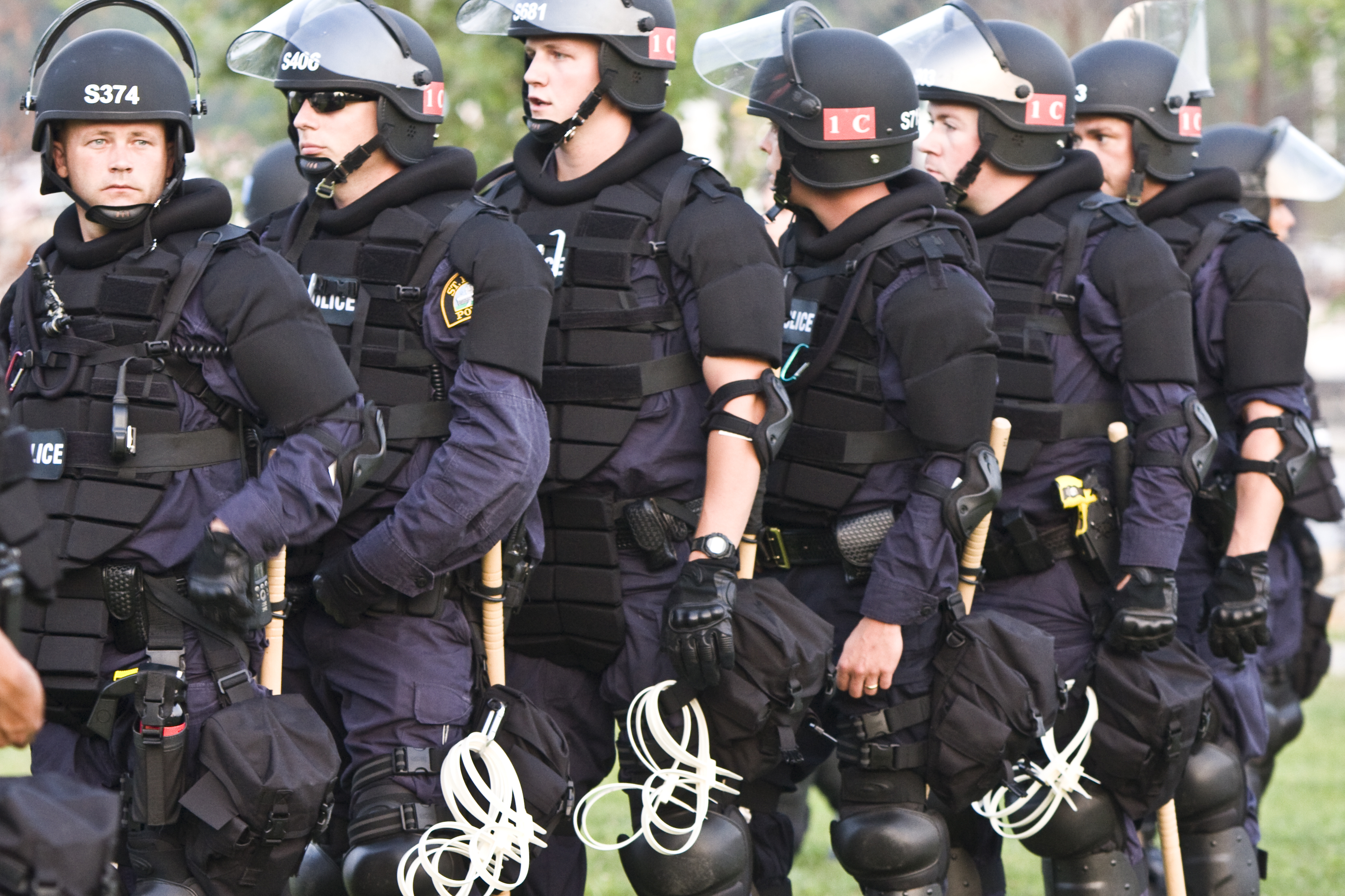 Saint Paul, Minnesota police officers covered in riot gear march and line up during the 2008 Republican National Convention (RNC) at the Xcel Energy Center.